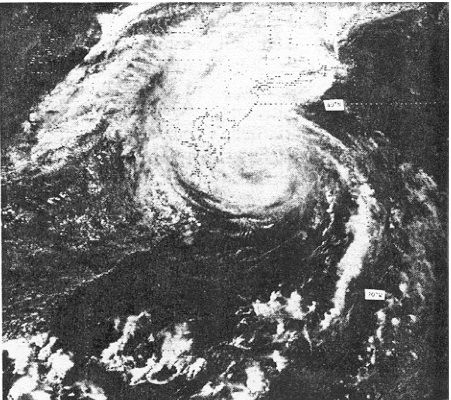 Hurricane Belle near landfall